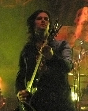 Sascha Gerstner from Helloween at Pakkahuone (Tampere, Finland)